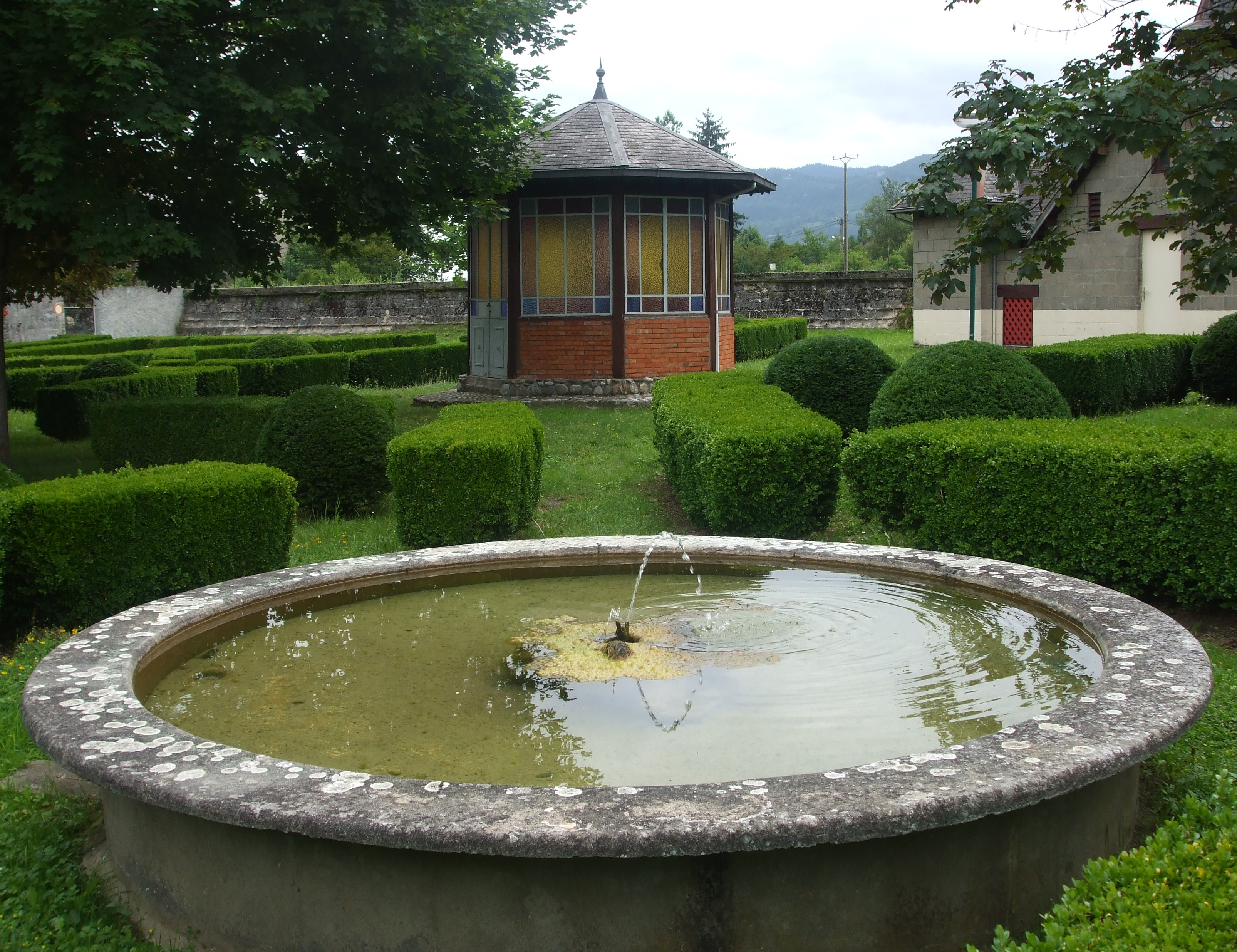 French formal garden in L'Aiguillon, in Ariège (France).